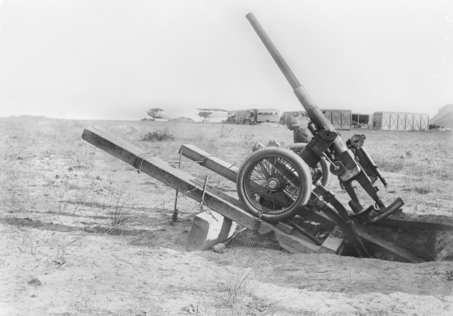 AWM caption : "A 'home made' gun carriage which can be placed behind a fast motor. It was constructed by the men of the Royal Naval Air Service (RNAS) Wing based on Tenedos [Bozcaada] Island, which took part in the operations at the Dardanelles. [Nieuport 10 and Morane-Sauliner Type L French aircraft in background]". Comment : This is a QF 3 pounder Vickers gun.